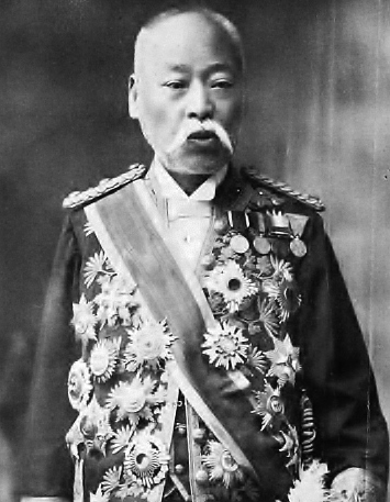 Cropped portrait of Japanese statesman, Prince Sanetsune Tokudaiji